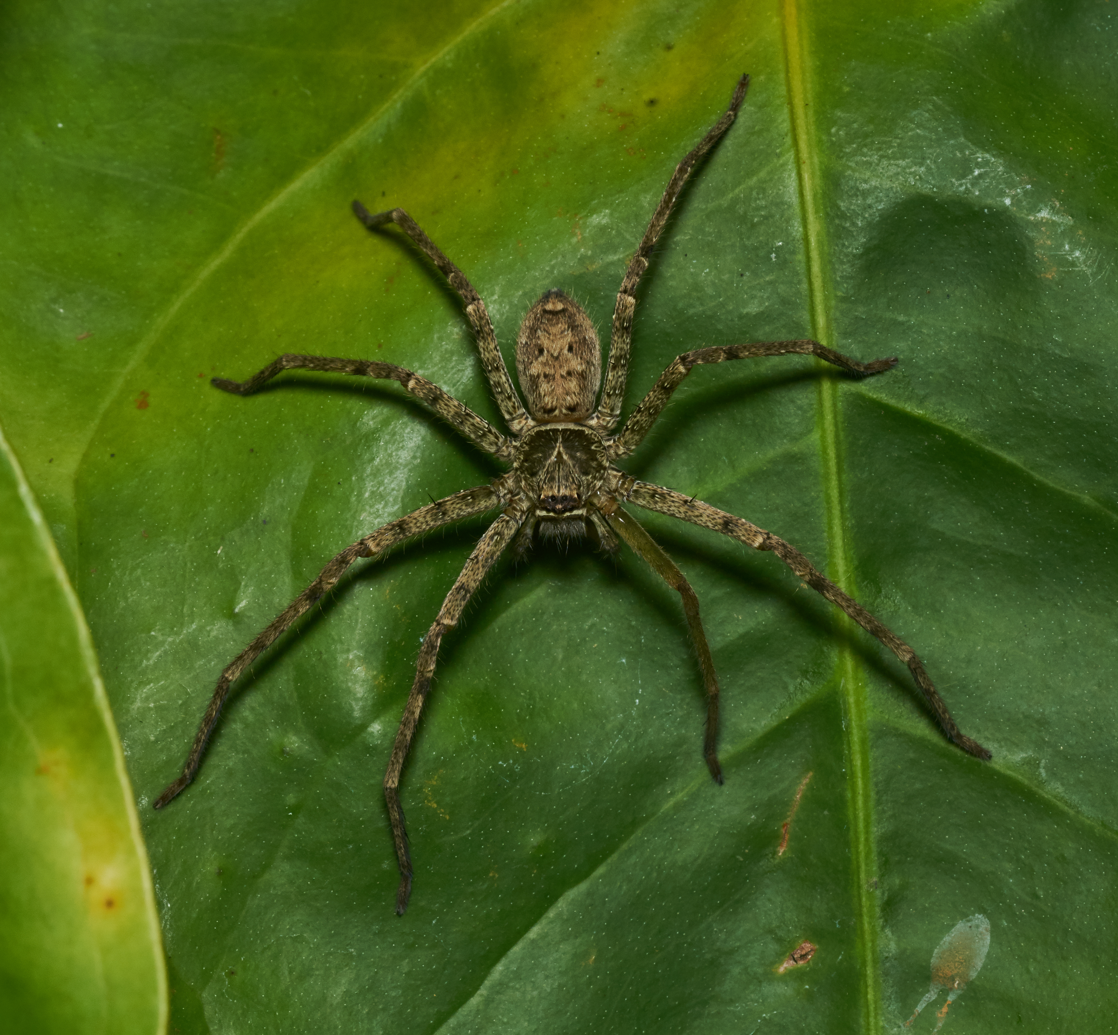 Heteropoda venatoria is a species of spider in the family Sparassidae, the huntsman spiders. It is native to the tropical regions of the world, and it is present in some subtropical areas as an introduced species. Its common names include Giant crab spider and Cane spider.